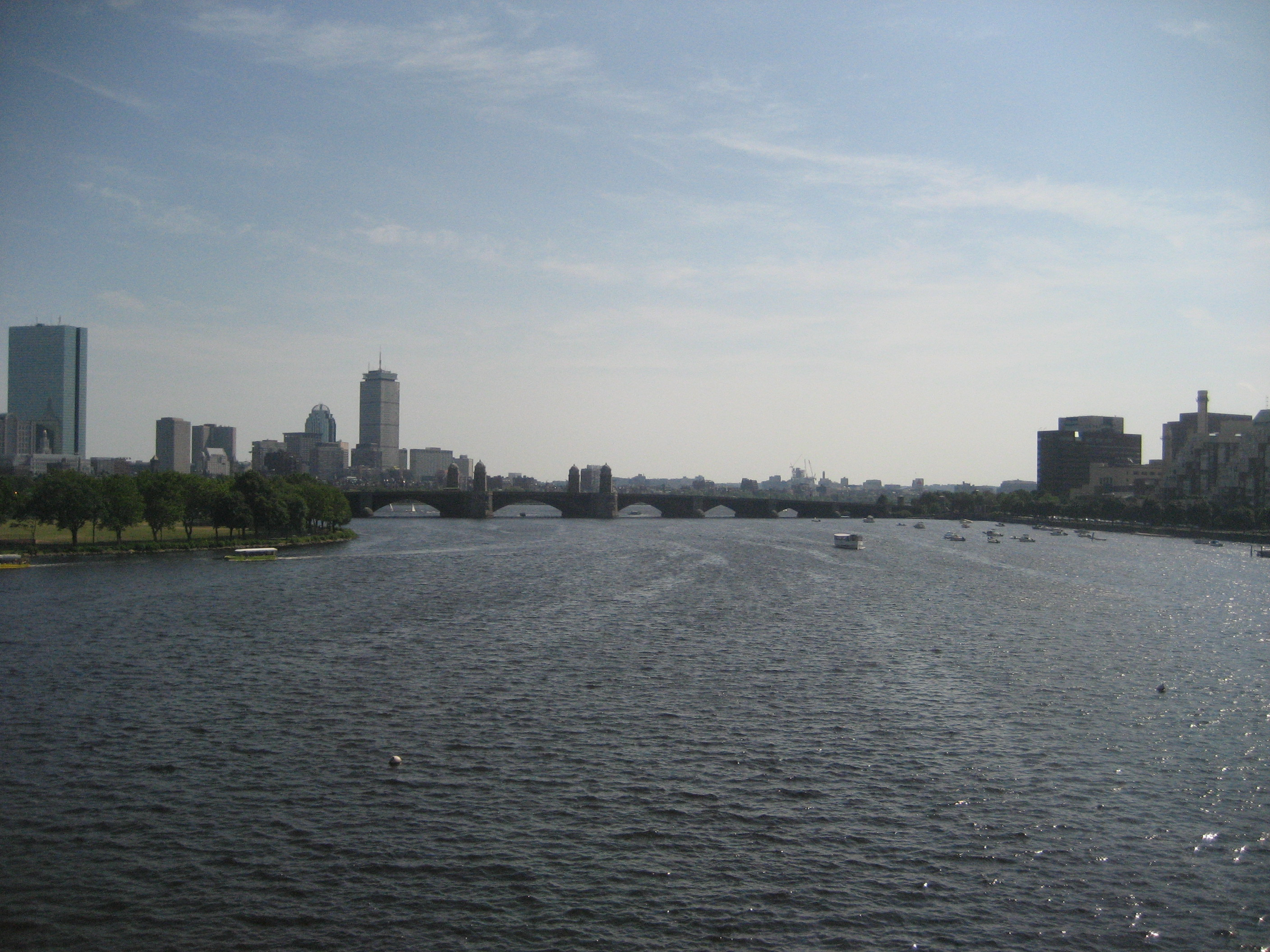 Charles River seen from the Boston Science Museum, with, Boston on the left and Cambridge, Massachusetts, on the right.